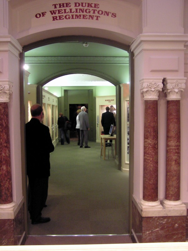 Entrance to the Duke of Wellington's Regiment Museum, Bankfield Museum, Halifax